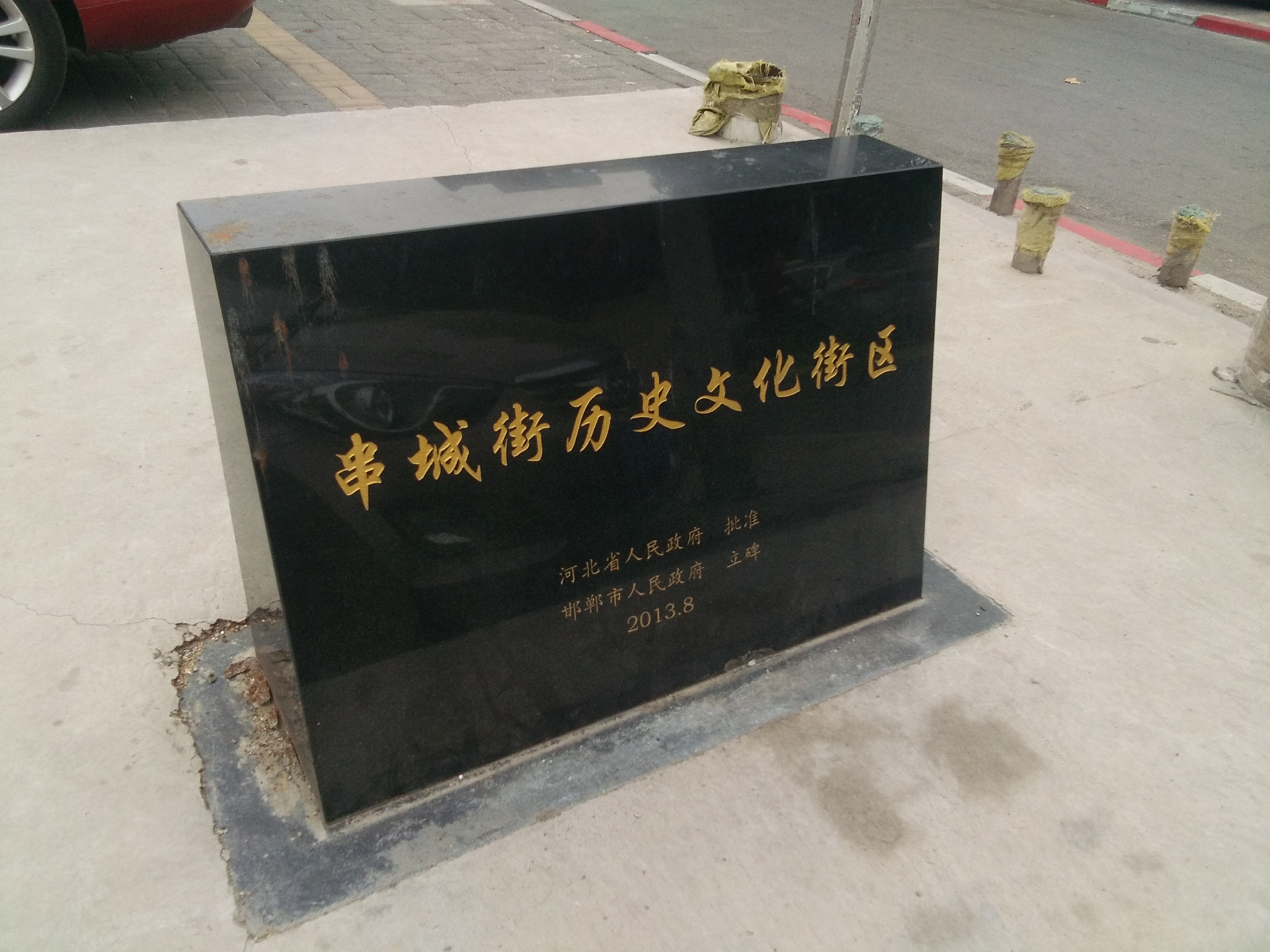 ChuanChengJie Historical and cultural district.